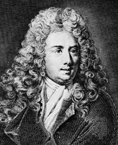 Antoine Galland (1646-1715) - French writer and orientalist